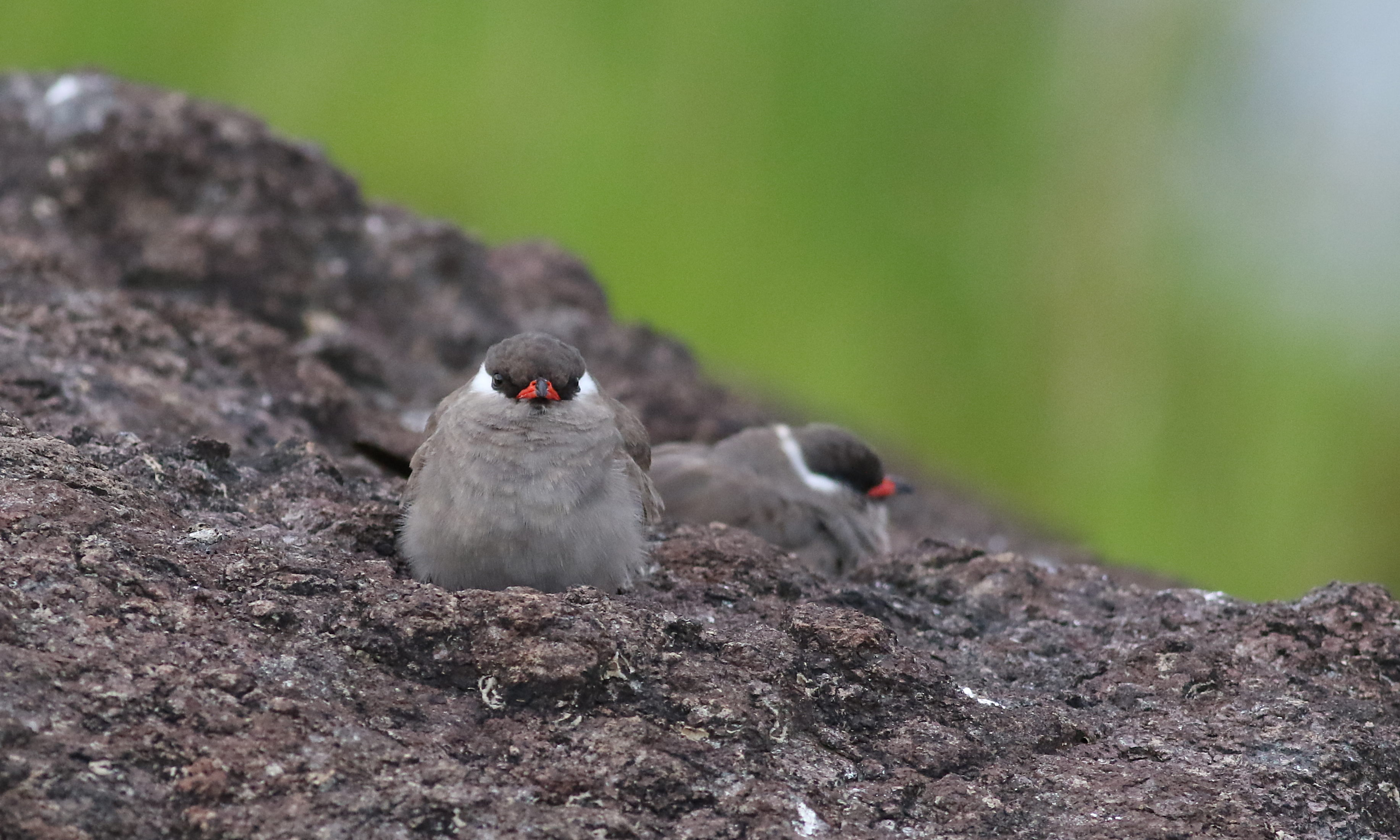 Rock pratincole, Glareola nuchalis, at Chobe River, Kasane, Botswana. Not great pics, but lucky to see these birds.